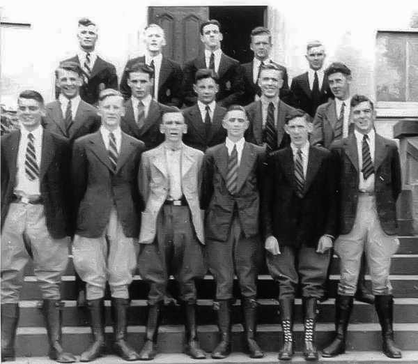 VSF graduates 1942 - enhanced